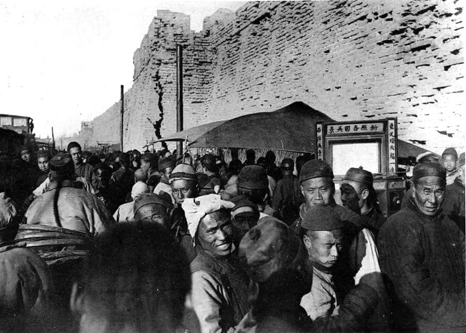 Image from La Chine à terre et en ballon.